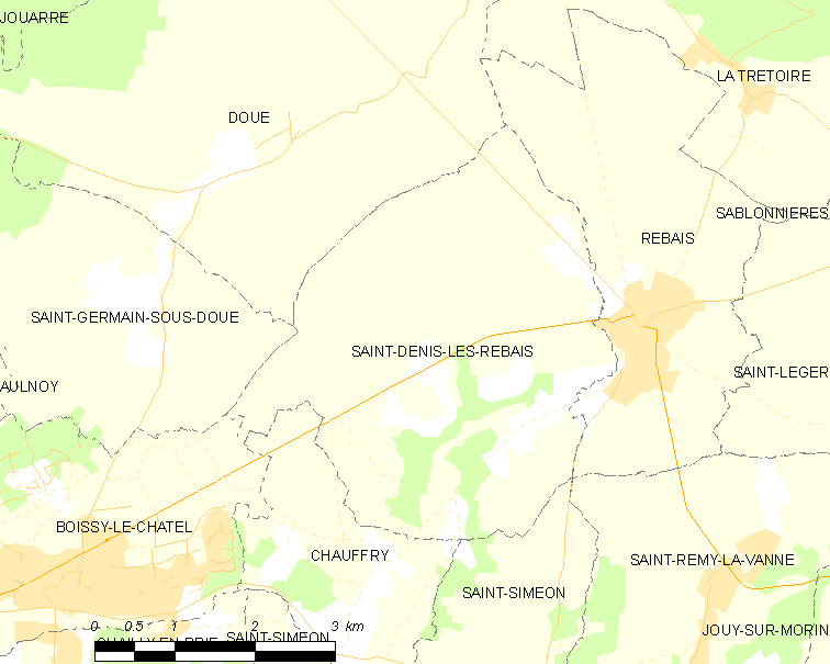 Map of French municipality Saint-Denis-lès-Rebais